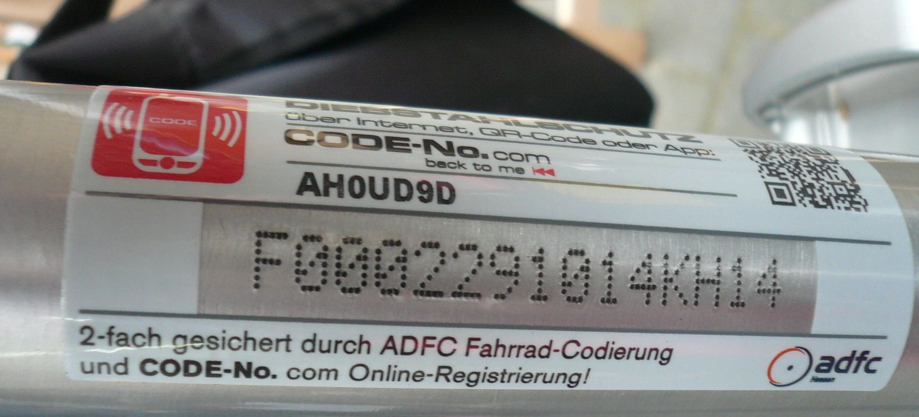 code engraved by means of a needle stamping device to protect from bicycle theft